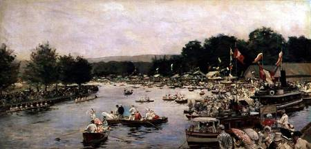 Henley Regatta, by James Tissot, 1877 Tissot died in 1902 - James_Tissot